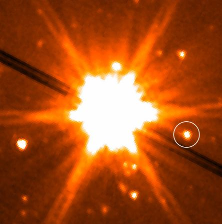 T-type brown dwarf HN Pegasi B (bottom right) with around 20 times Jupiter's mass.